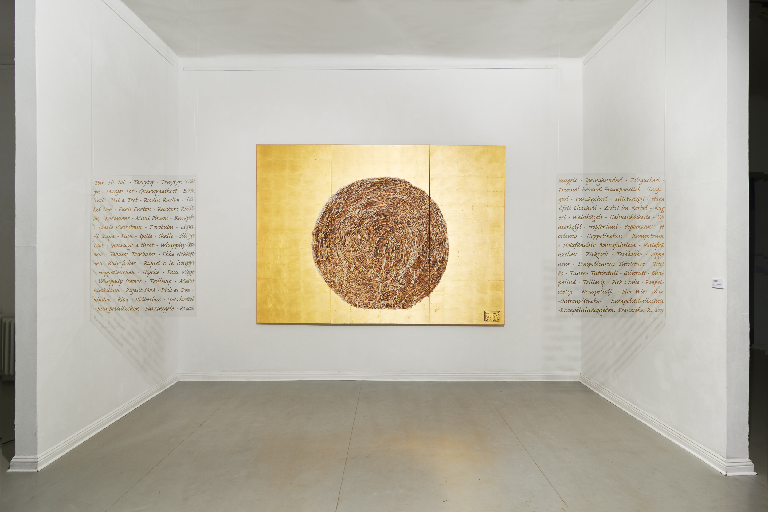 art exhibition Franziska Rutishauser